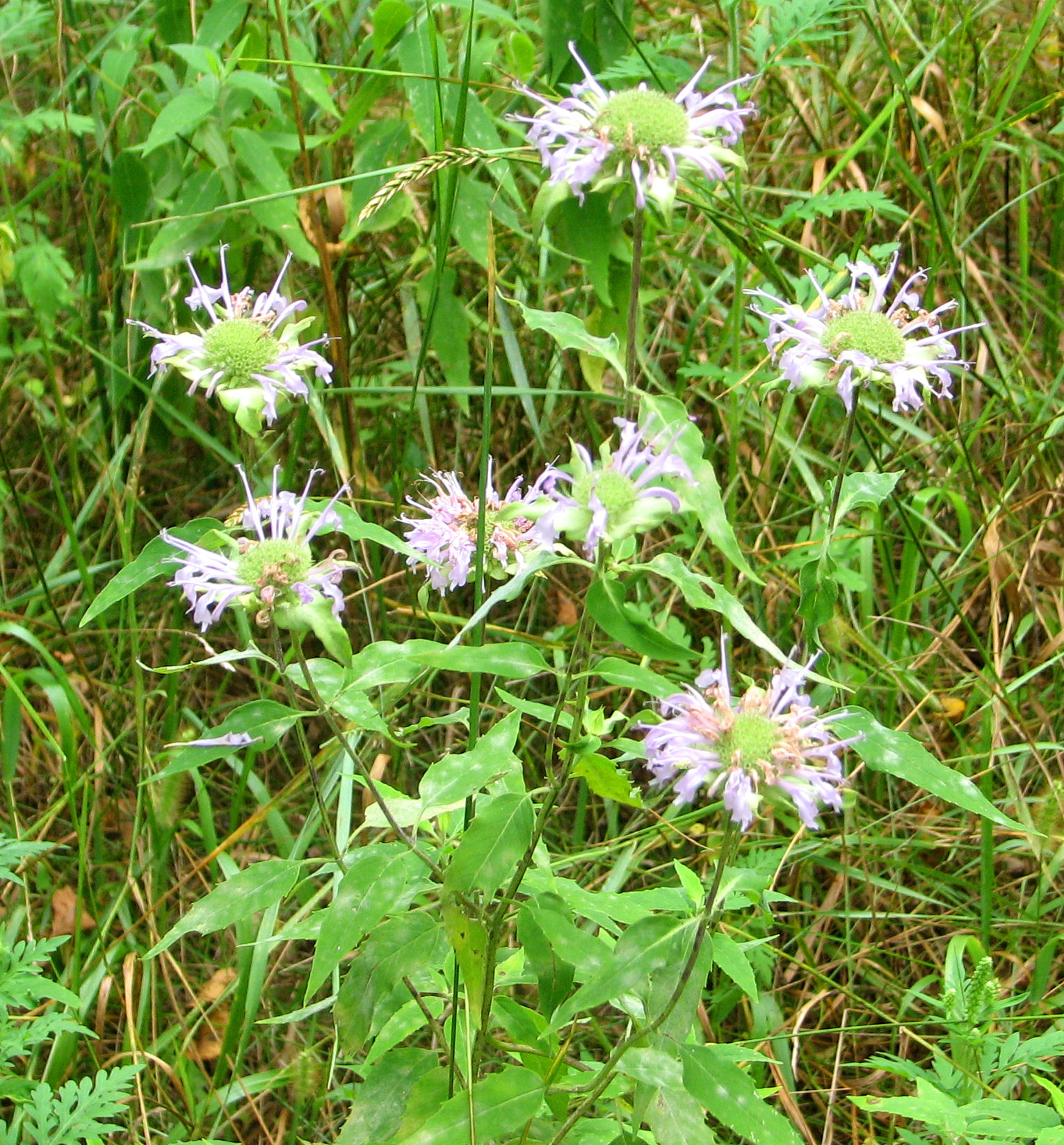 Wild Bergamot (Monarda fistulosa), Ottawa, Ontario, Canada